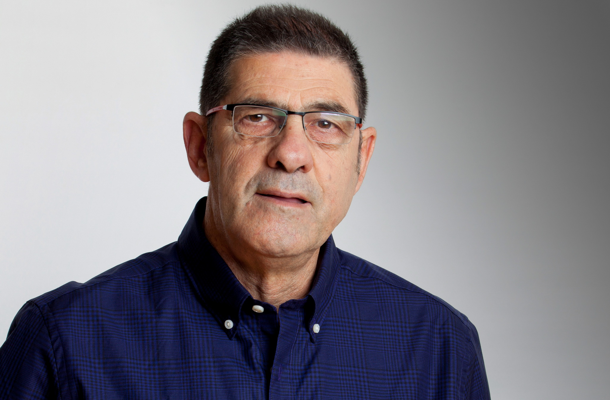 Arie Maliniak 2016 Photo by: Nitzan Hafner